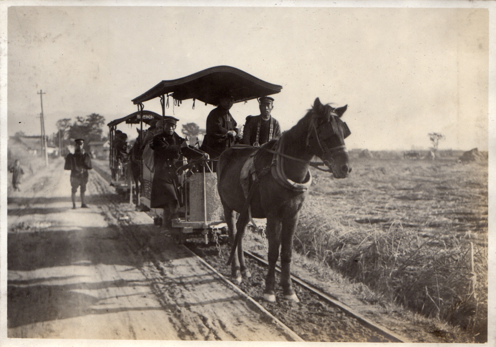 My spouse's uncle Elstner Hilton took this photo in Japan between 1914 and 1918.